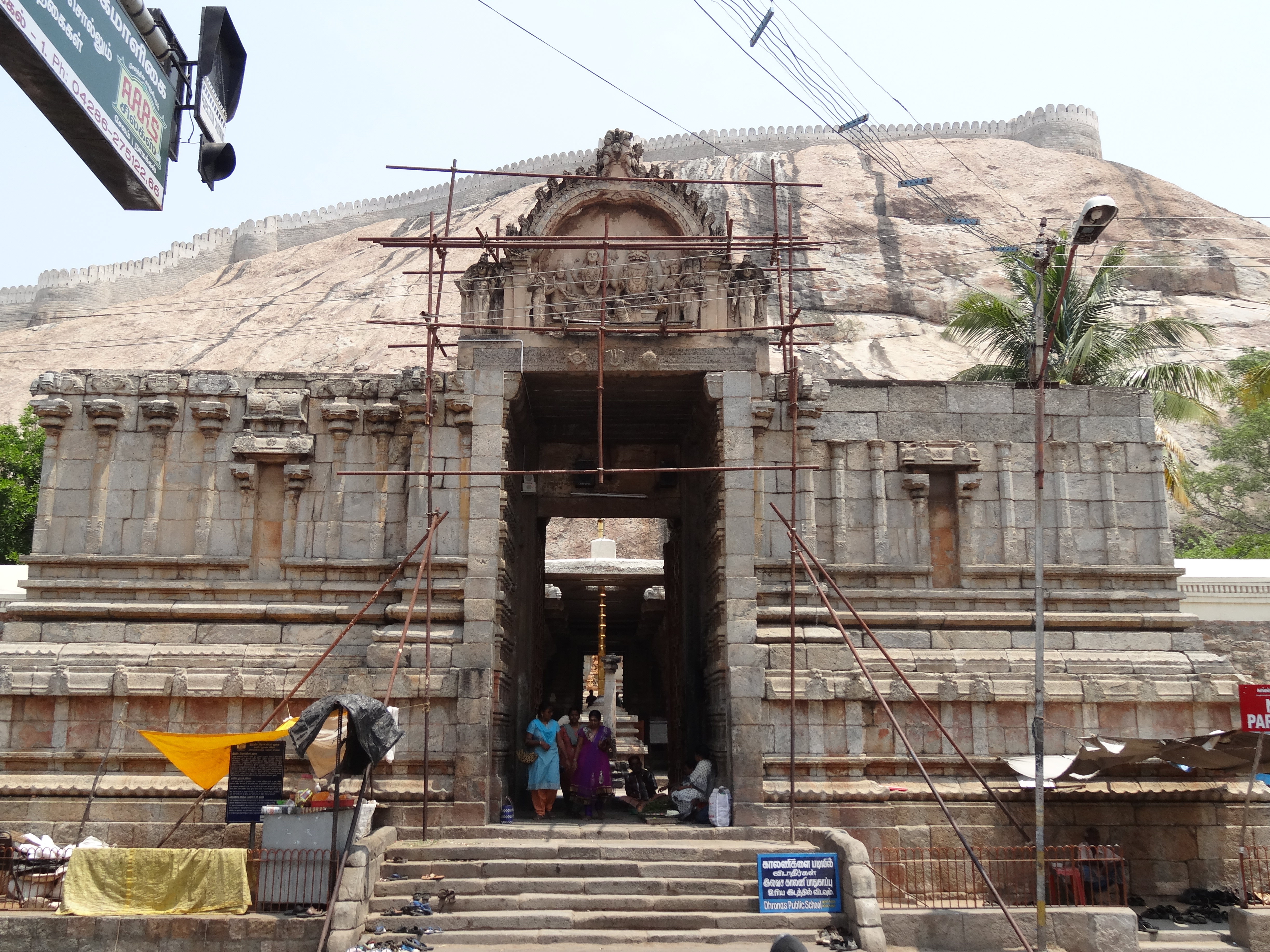 Entrance Lakshmi Narashimar temple in Namakkal. The temple houses Lakshmi Narashimar and Namagiri thayar.